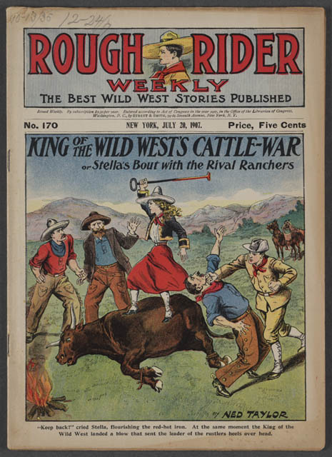 Ned taylor. King of the Wild West's Cattle War or Stella's Bout with the Rival Ranchers. July 20, 1907.